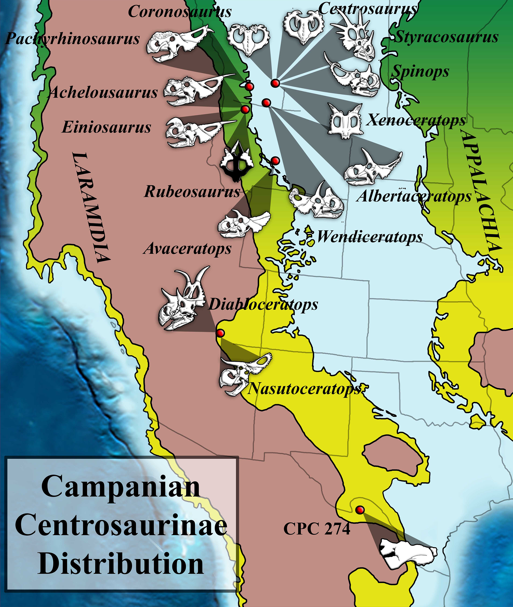 Fig 1. Centrosaurine Biogeography- The Campanian centrosaurine distribution showing that the vast majority of diagnosable Campanian centrosaurines are from northern Laramidia and that the record of southern centrosaurines is sparse. Figure based on Sampson et al. Individual centrosaurine drawings were redrawn, but based on Brown and Schlaikjer (Styracosaurus), Langston (Pachyrhinosaurus), Sampson (Einiosaurus, Achelousaurus), Penkalski and Dodson (Avaceratops), Ryan and Russell (Coronosaurus, Centrosaurus), Ryan (Albertaceratops), Kirkland and DeBlieux (Diabloceratops), McDonald and Horner (Rubeosaurus), Farke et al. (Spinops), Ryan et al. (Xenoceratops), Sampson et al. (Nasutoceratops), and Evans and Ryan (Wendiceratops).